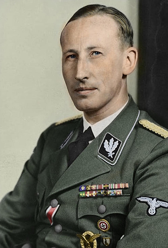 This is a retouched picture, which means that it has been digitally altered from its original version. Modifications: recolored. The original can be viewed here: Bundesarchiv Bild 146-1969-054-16, Reinhard Heydrich.jpg: . Modifications made by Ruffneck88. Reinhard Heydrich Photographer Hoffmann, HeinrichArchive description Description provided by the archive when the original description is incomplete or wrong. You can help by reporting errors and typos at Commons:Bundesarchiv/Error reports. Porträt Reinhard Heydrich in der Uniform eines SS-Gruppenführers ca. 1940/1941Title Reinhard Heydrich Depicted people Heydrich, Reinhard: as a SS-Gruppenführer, Leiter des SD, Chef des Reichssicherheitshauptamtes (RSHA), Deutschland (GND 118550640)Date 1940date QS:P571,+1940-00-00T00:00:00Z/9Collection German Federal Archives Native nameDas BundesarchivParent institutionFederal Government Commissioner for Culture and Media LocationKoblenz (headquarters)Coordinates50° 20′ 32.71″ N, 7° 34′ 21.22″ E Established1946 Web page control : Q685753 VIAF: 137346469 ISNI: 0000 0004 0555 2728 LCCN: n92025526 NLA: 36455393 Open Library: OL55798A WorldCat institution QS:P195,Q685753Current location Sammlung von Repro-Negativen (Bild 146)Accession number Bild 146-1969-054-16 Source This image was provided to Wikimedia Commons by the German Federal Archive (Deutsches Bundesarchiv) as part of a cooperation project. The German Federal Archive guarantees an authentic representation only using the originals (negative and/or positive), resp. the digitalization of the originals as provided by the Digital Image Archive.